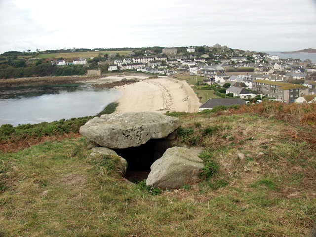 Buzza Hill. Burial chamber atop the hill, looking over Hugh Town below.